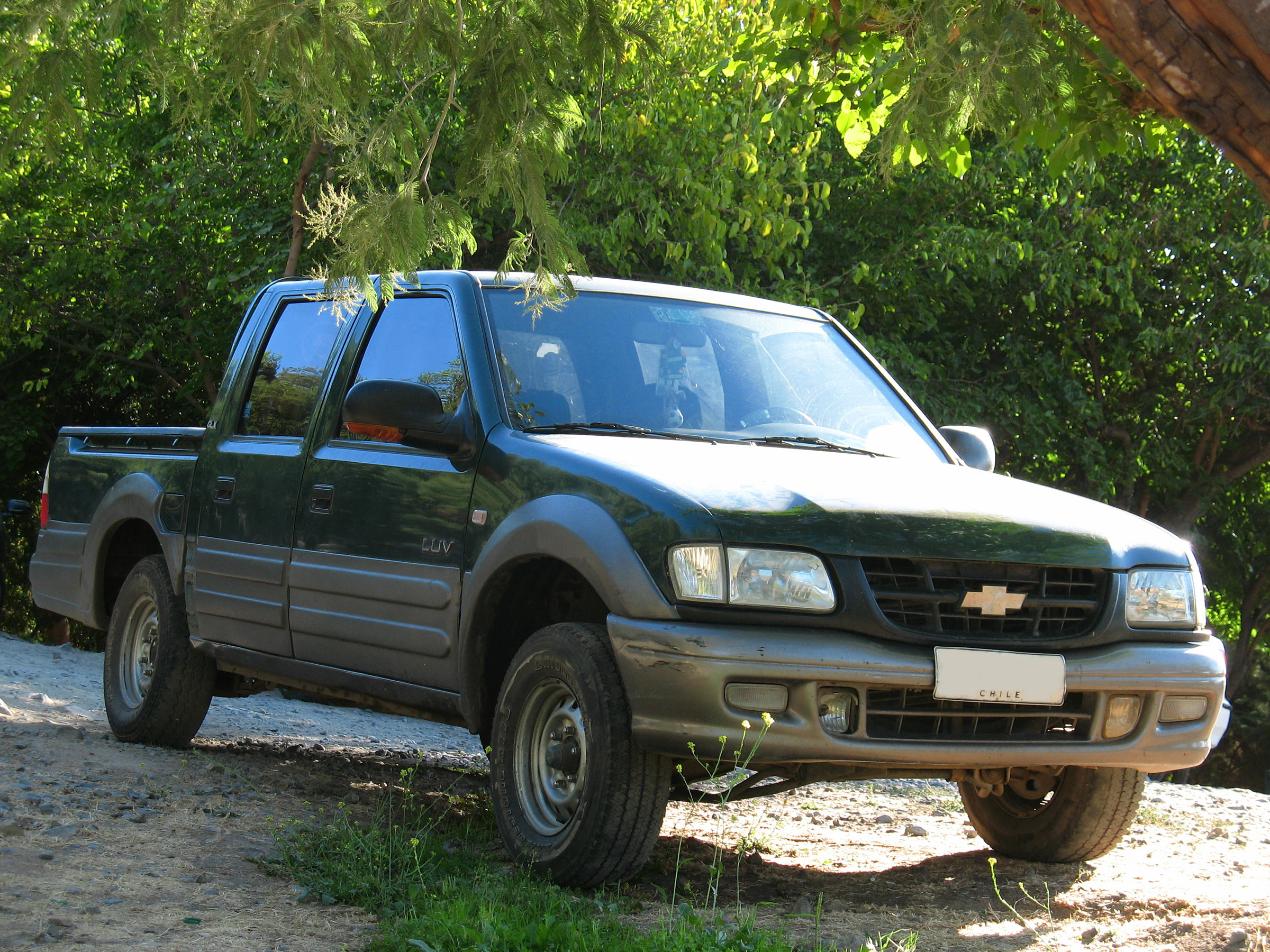 Chevrolet Luv 2.2 GLX Crew Cab 2004